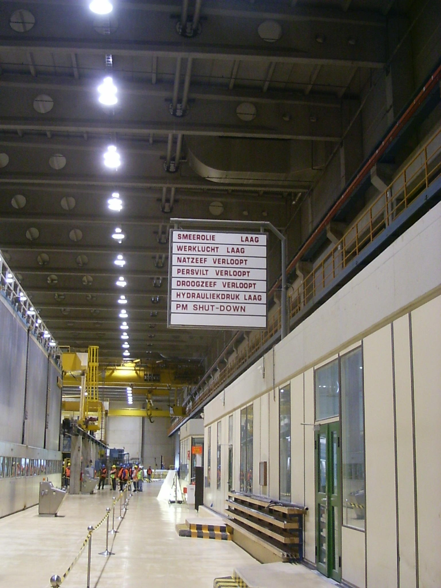 Aisle along the paper machine